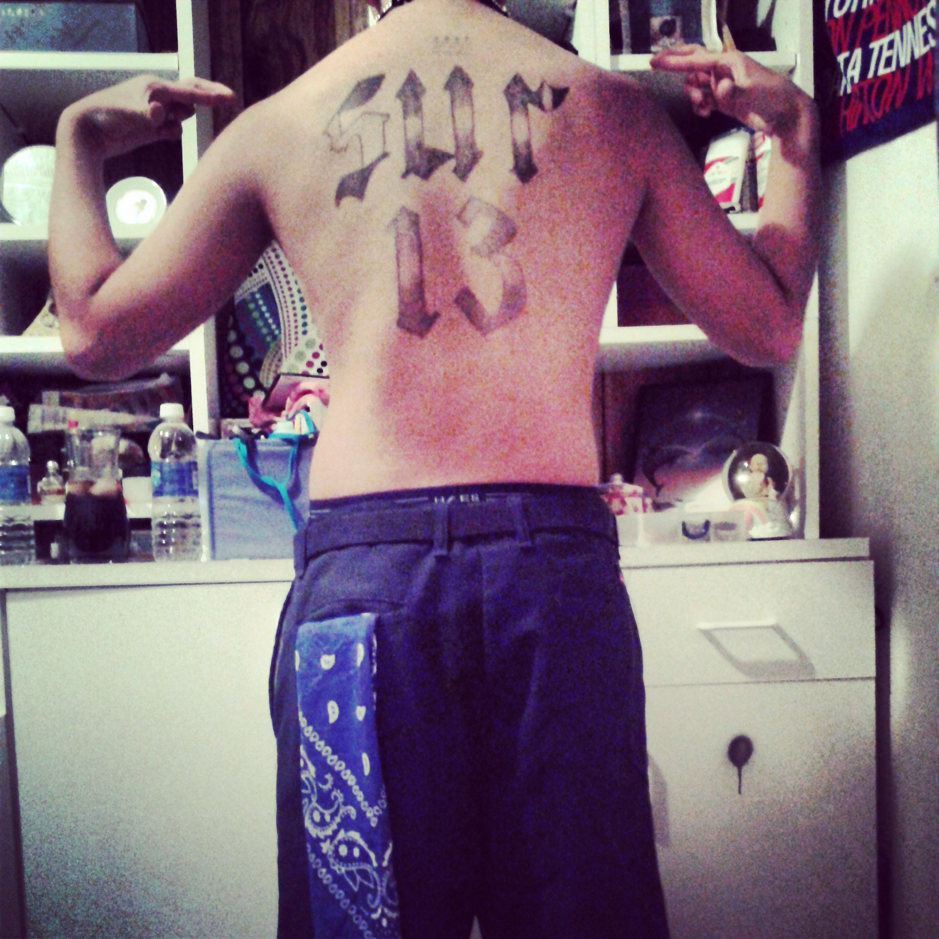 Sureño gang member tattoo on back